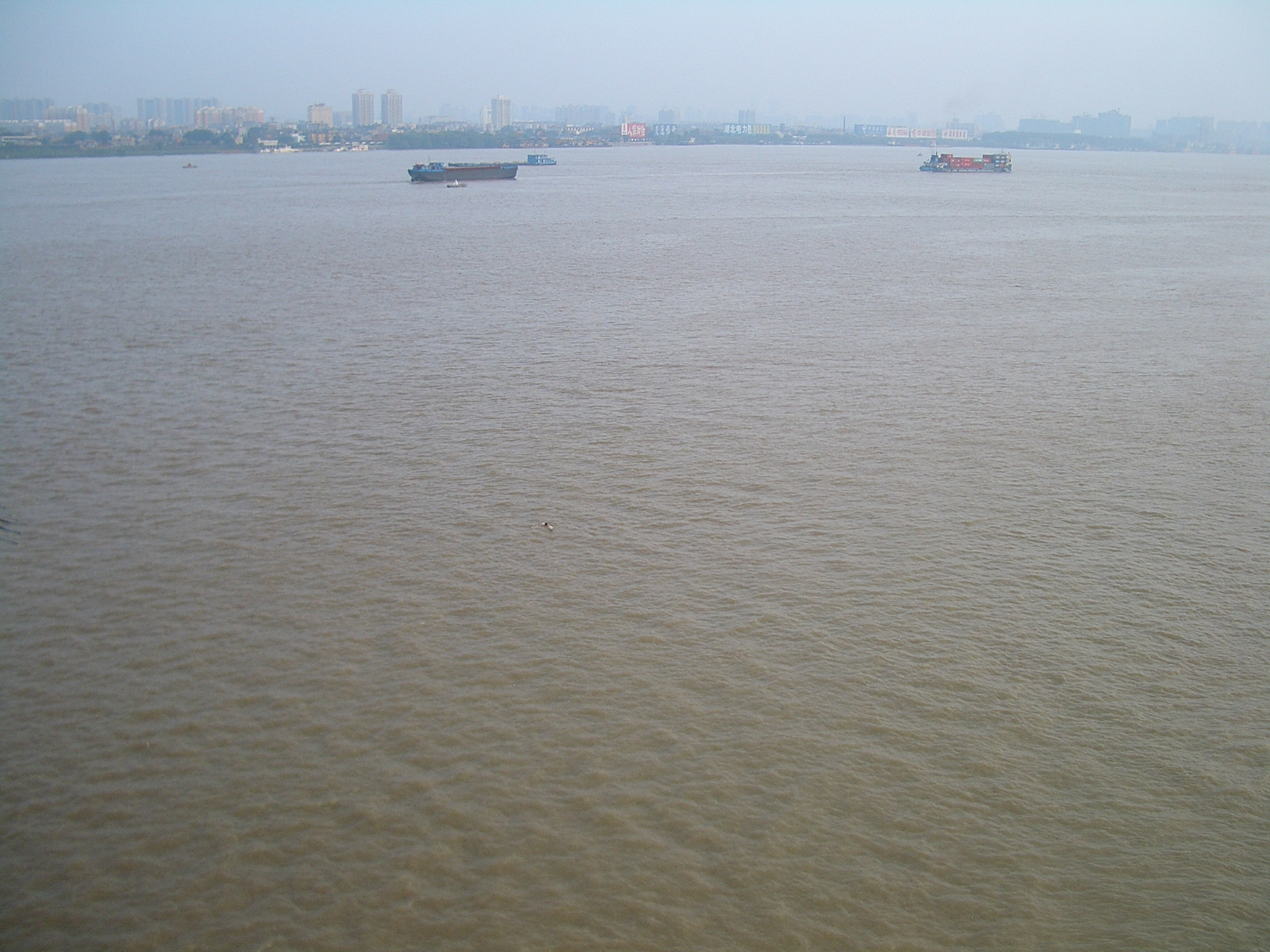 Swimmers in Changjiang (Yangtze River) in Wuhan, near the Hankou end of the Second Changjiang Bridge. It is common for swimmers in this area to tow a life preserver, or some other floating thing, on a rope - perhaps to use in an emergency, or to increase visibility for any boats that may pass by